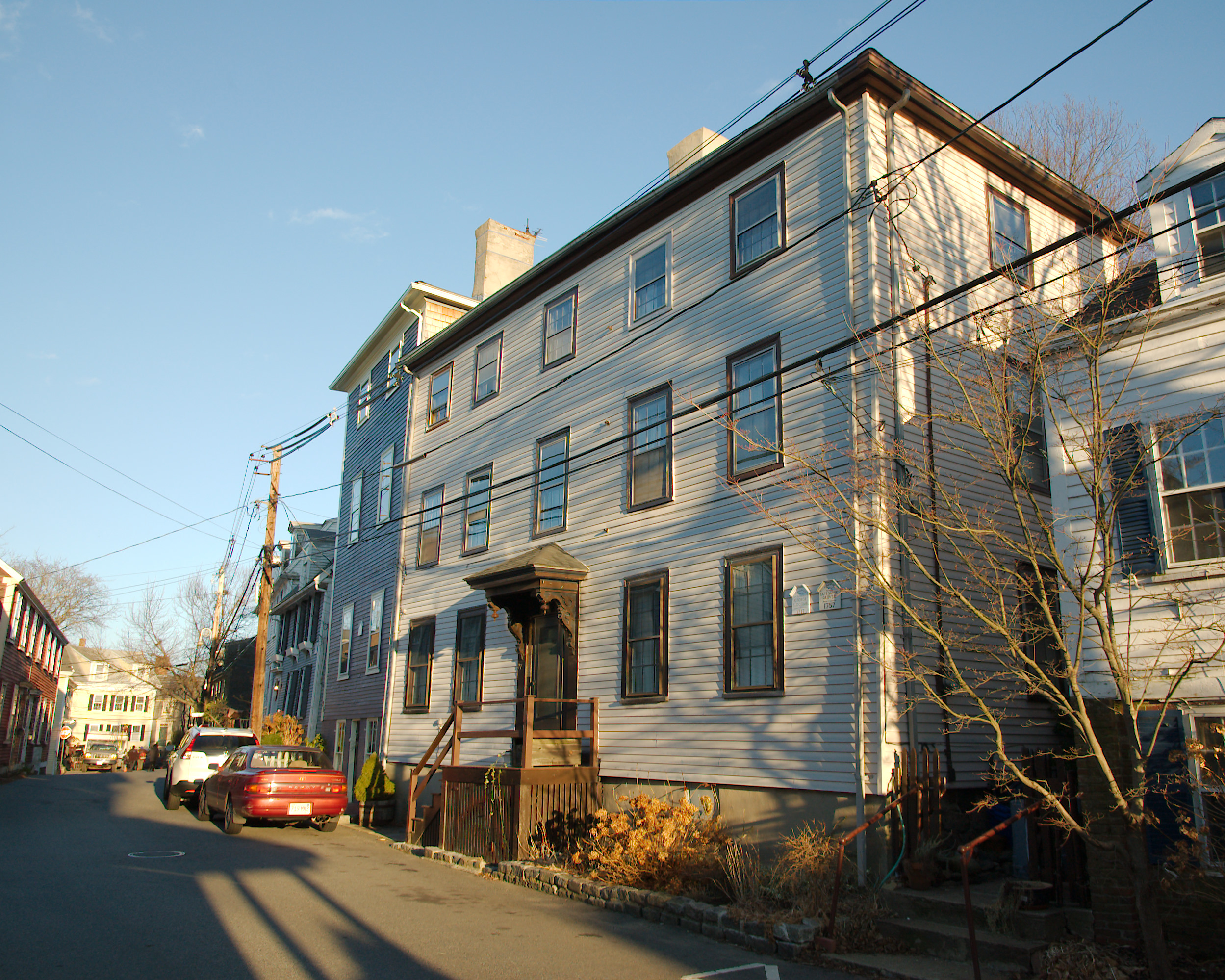 Marblehead Summer House, an historical house, now inn, in Marblehead, Massachusetts, dating back to pre-revolutionary times.